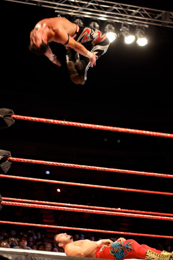 Evan Bourne completes his victory against Chavo Guerrero with a Shooting Star Press at a WWE House show in Halifax, Nova Scotia, Canada.